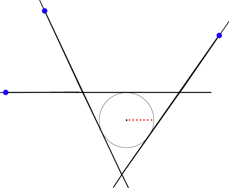 EPE, Estimated Position Error. A diagram that can help articles describe and explain EPE, on this drawing with 3 positional fixes. The black dot in the centre is the estimated position, while the red dots illustrates the radius - Estimated Position Error.